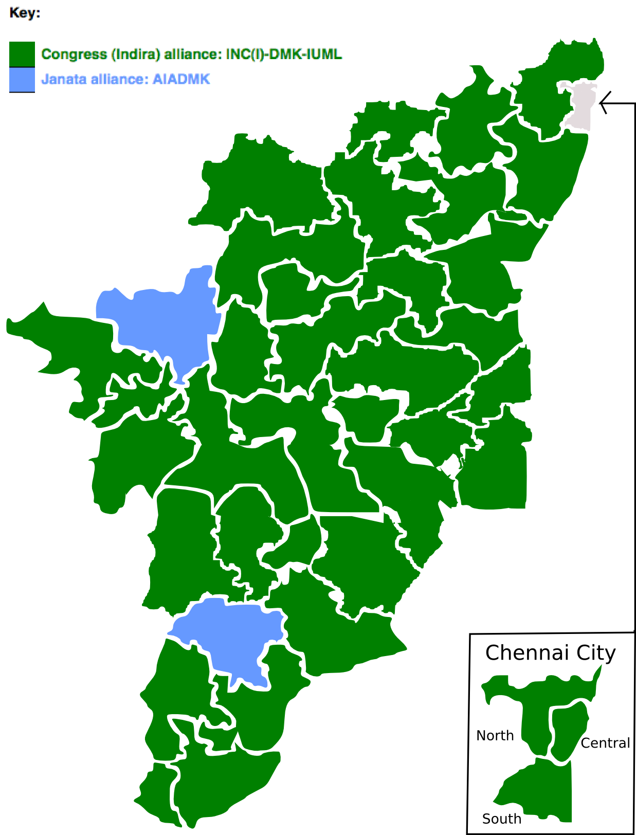 1980 Lok Sabha Election map for Tamil Nadu. Map is based on ECI drawn map. Results are based on ECI website.